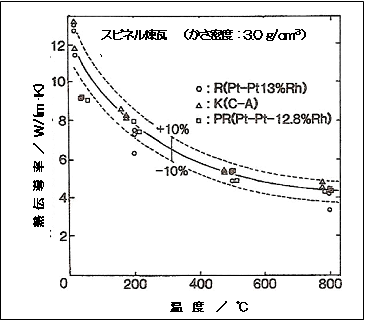 Thermal conductivity measurements of the spinel brick